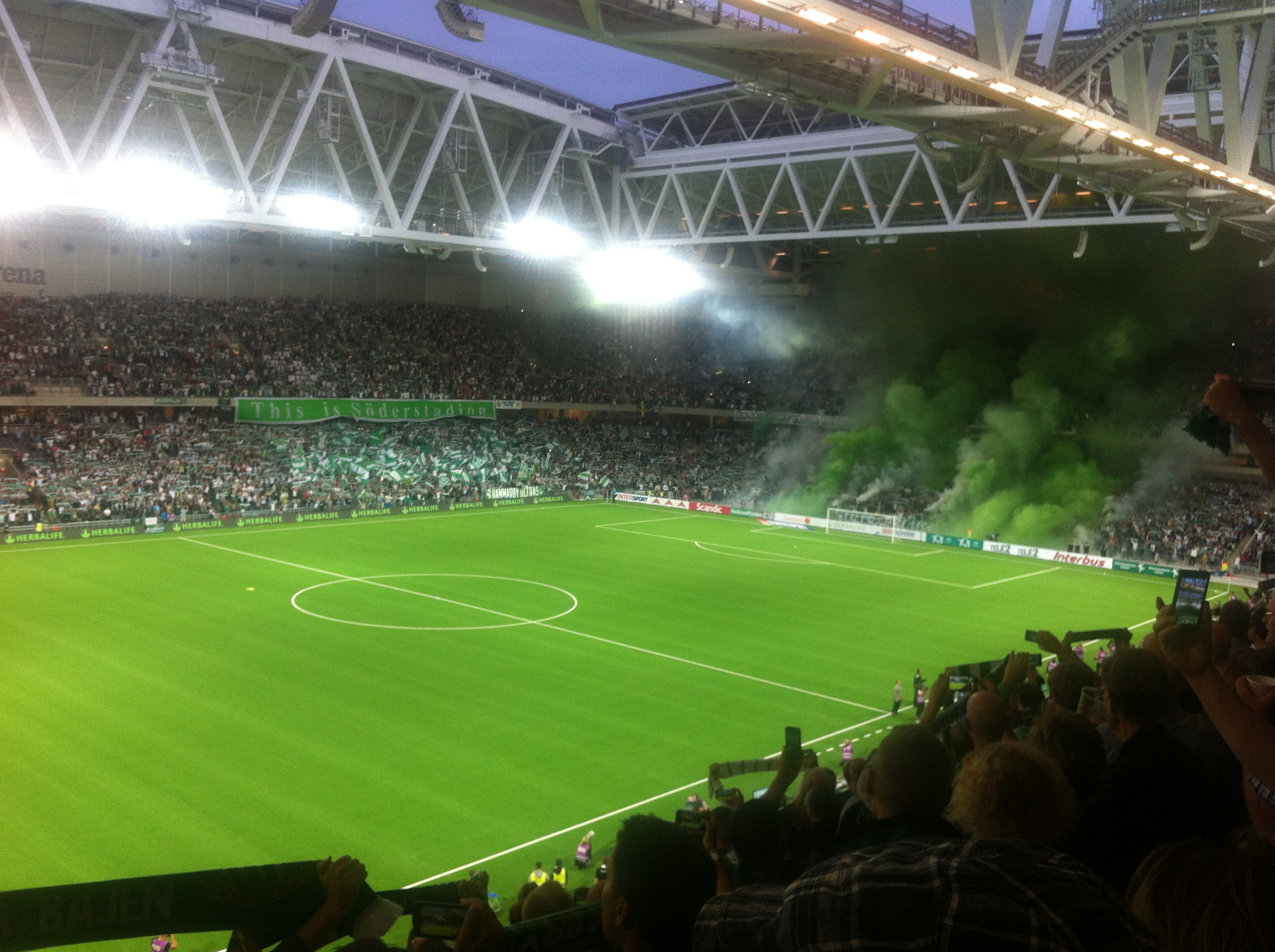 Green smoke rising from the home supporters' section of Tele2 Arena just before kickoff of the premiere match in the newly built arena, a 0–0 draw between home side Hammarby IF and visiting Örgryte IS attended by 29,175 spectators on 20 July 2013.